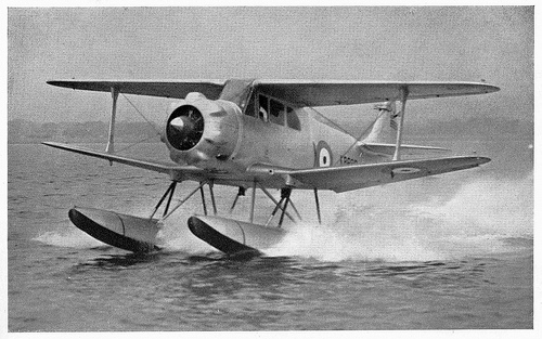 Airspeed Queen Wasp remote controlled target aircraft